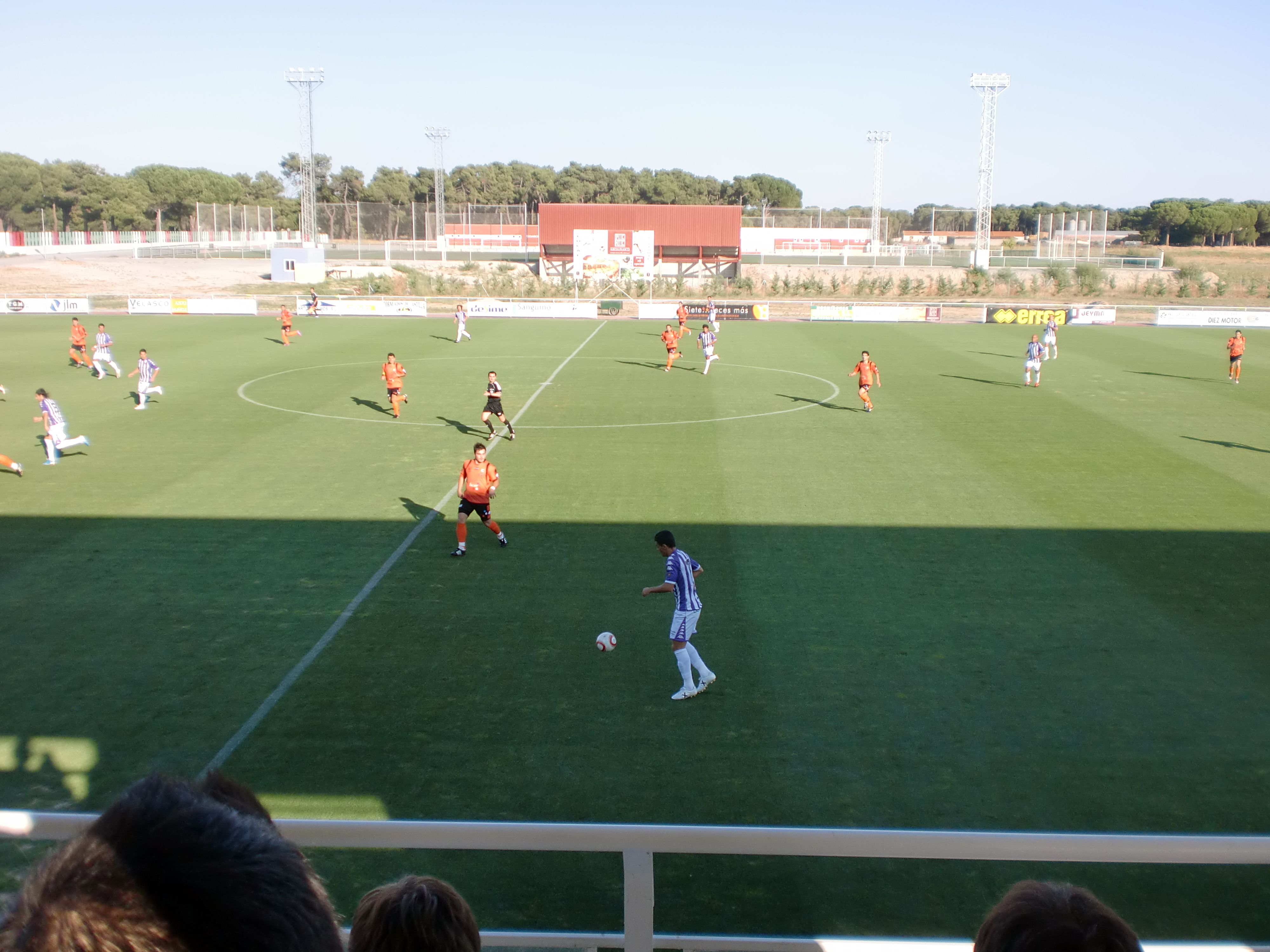 C.D. Íscar - Real Valladolid. Copa Castilla y León